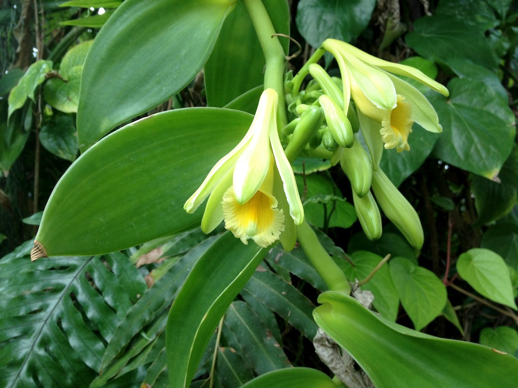 Vanilla planifolia flowering in Florida Southern College's greenhouses